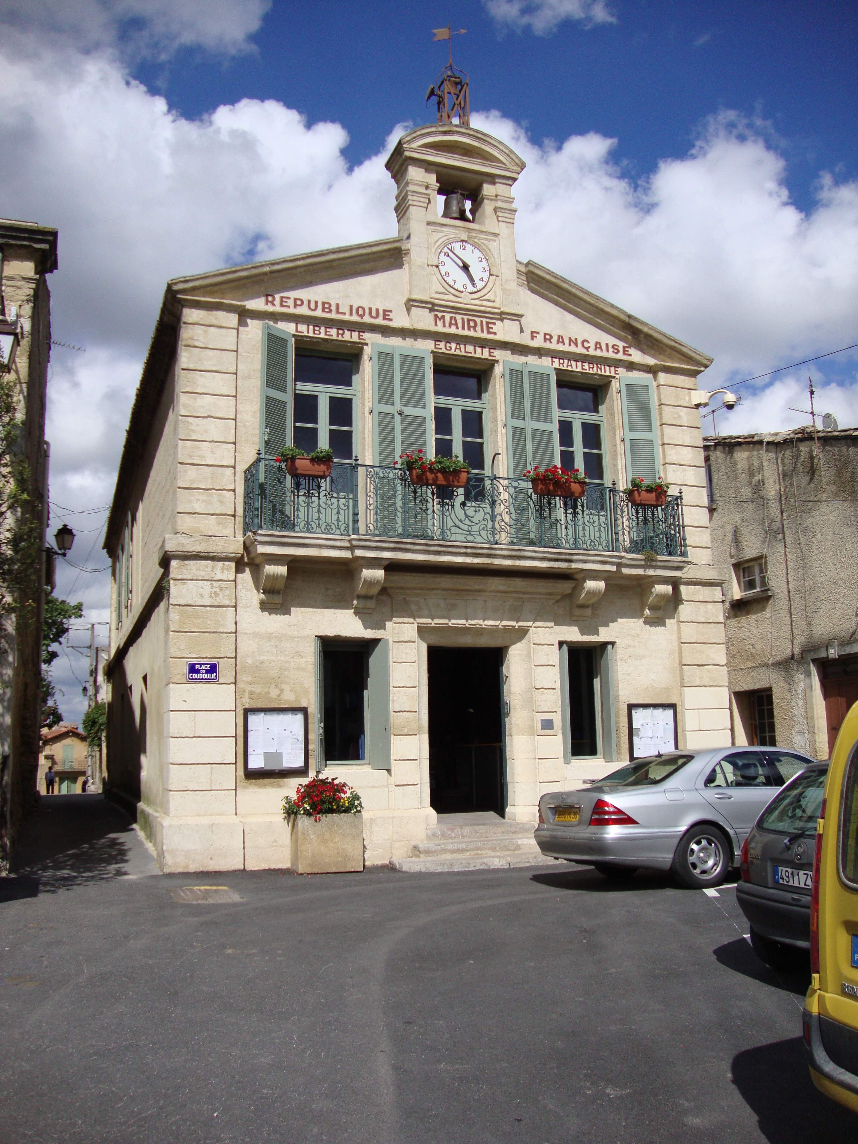 Gallargues-le-Montueux (Gard, Fr) town hall.